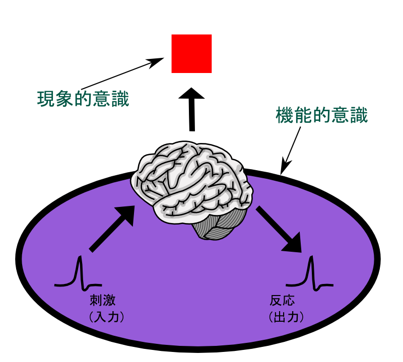 Phenomenal consciousness and functional consciousness, Japanese version.